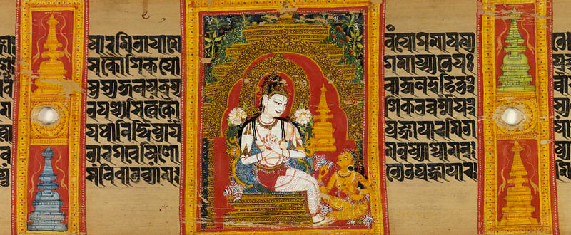 Manuscript page including a painting of Maitreya Bodhisattva on his throne. Sanskrit Astasahasrika Prajnaparamita Sutra manuscript written in the Ranjana script. India, early 12th century.